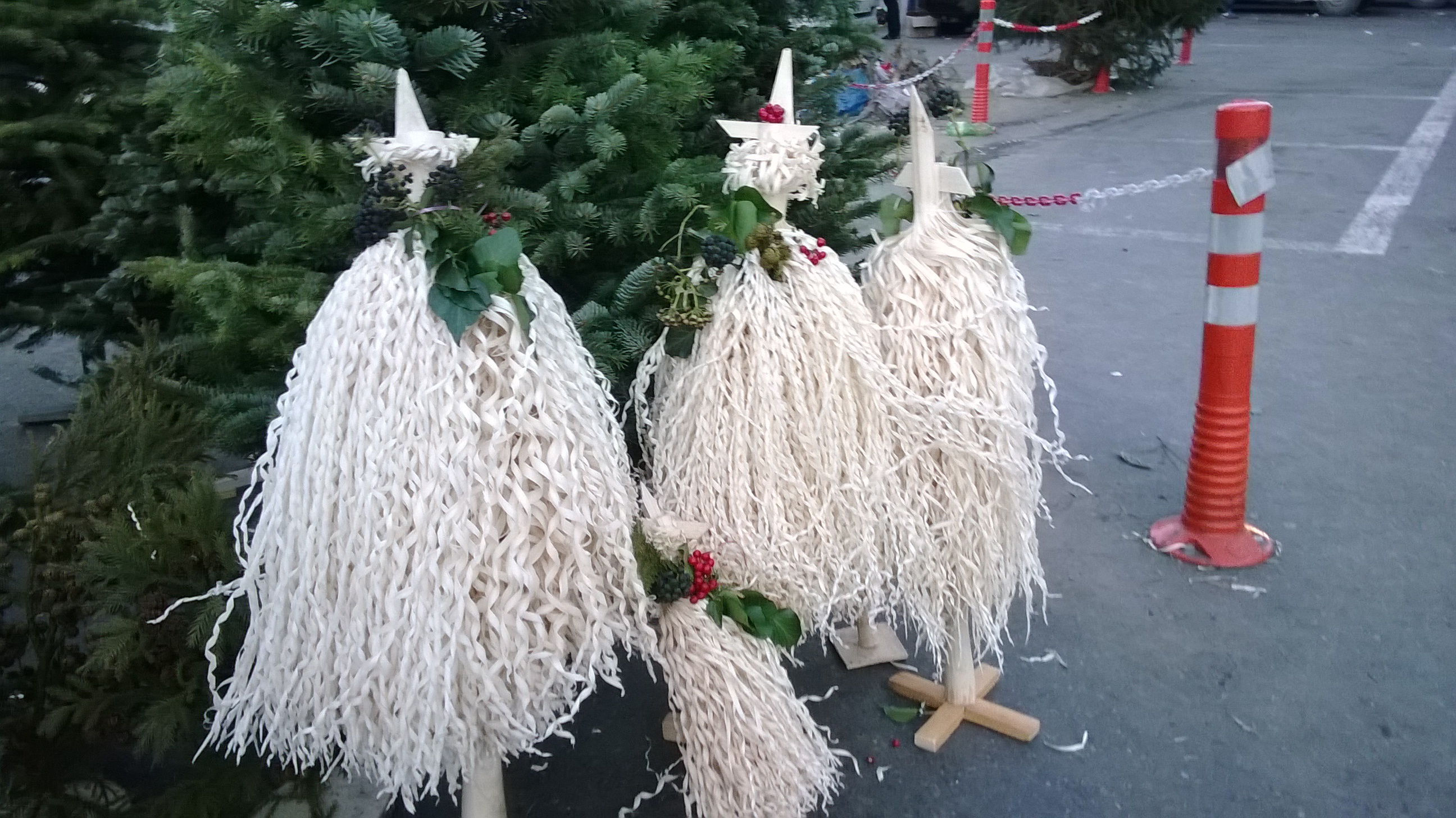 Chichilaki